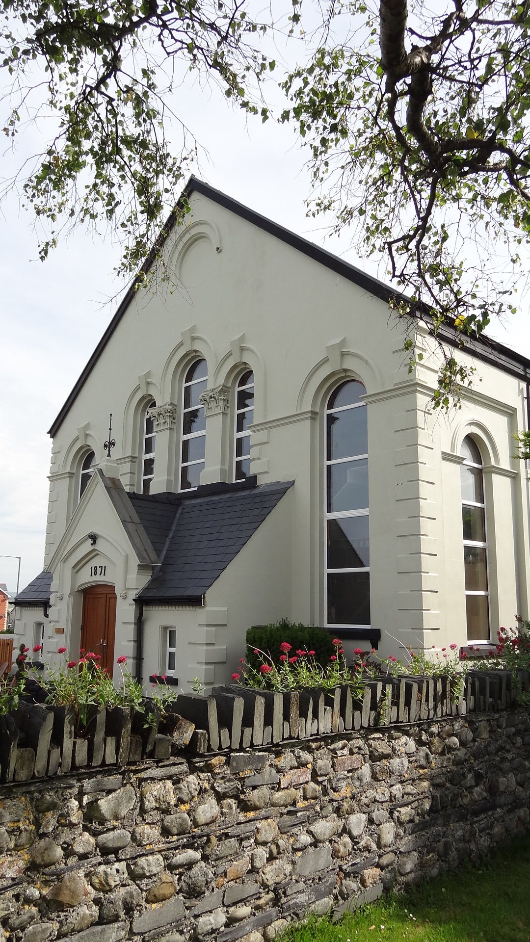 Bethel Chapel, Tywyn, Gwynedd